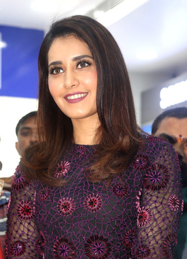 Raashi Khanna at the Big C launch, Hyderabad